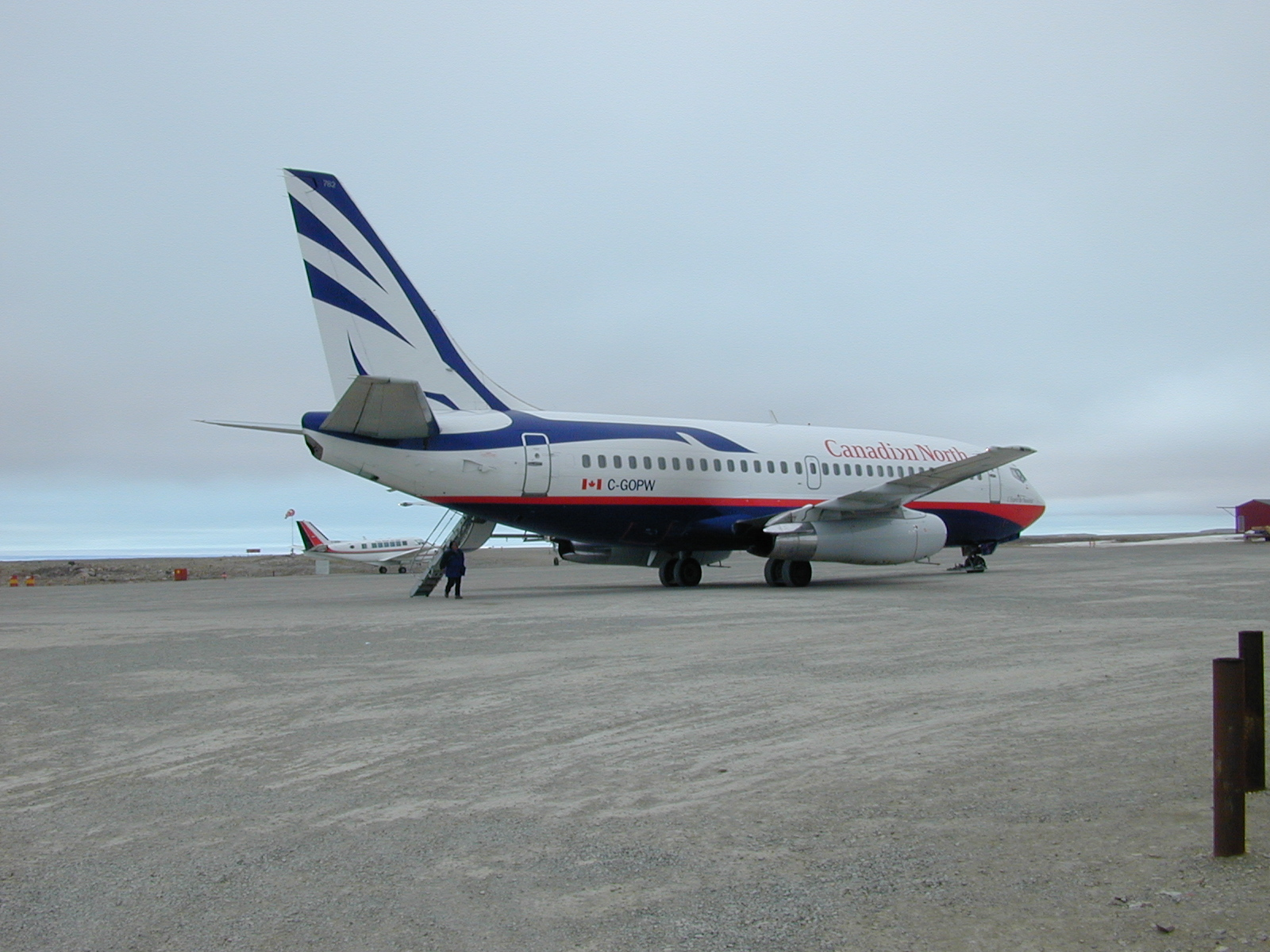 Air Norterra Inc (Canadian North) Boeing 737-275C (B732) (C-GOPW). Picture taken 17th June 1999 at 13:14 MDT (17th June 1999 19:14Z) at Cambridge Bay Airport, Nunavut, Canada